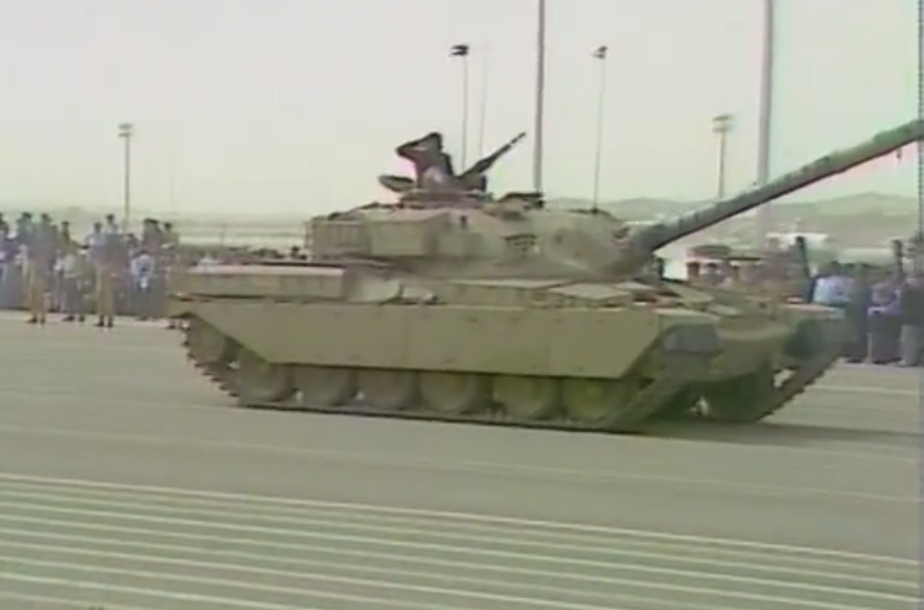 Kuwaiti Chieftain tank during military parade 1981